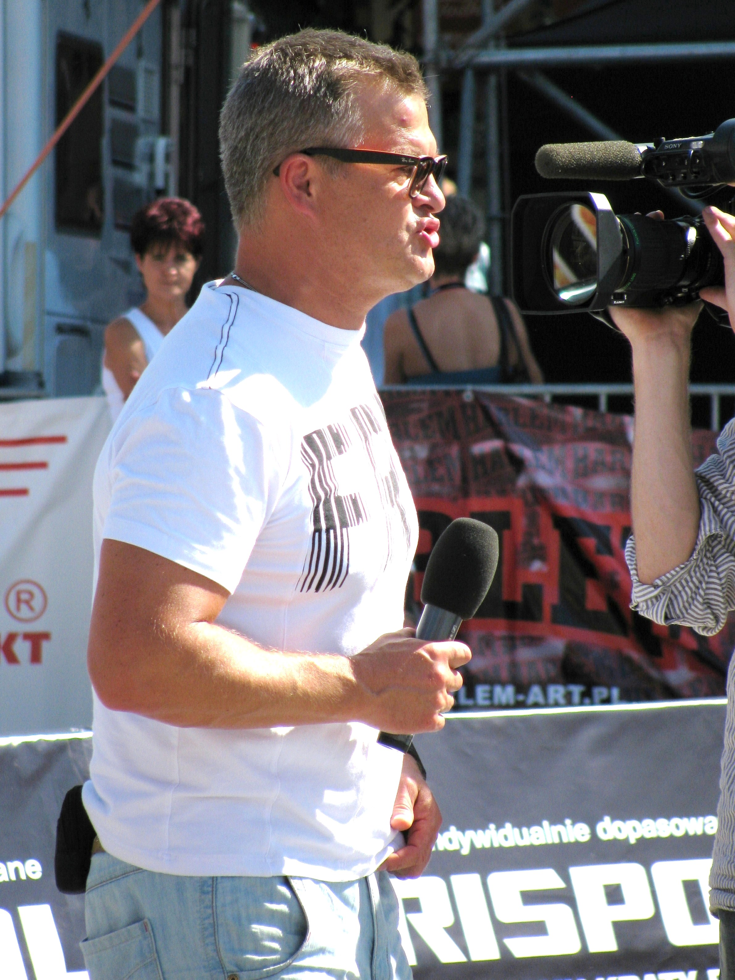 Ireneusz Bieleninik - a popular announcer and tv & radio presenter from Poland, now recording.